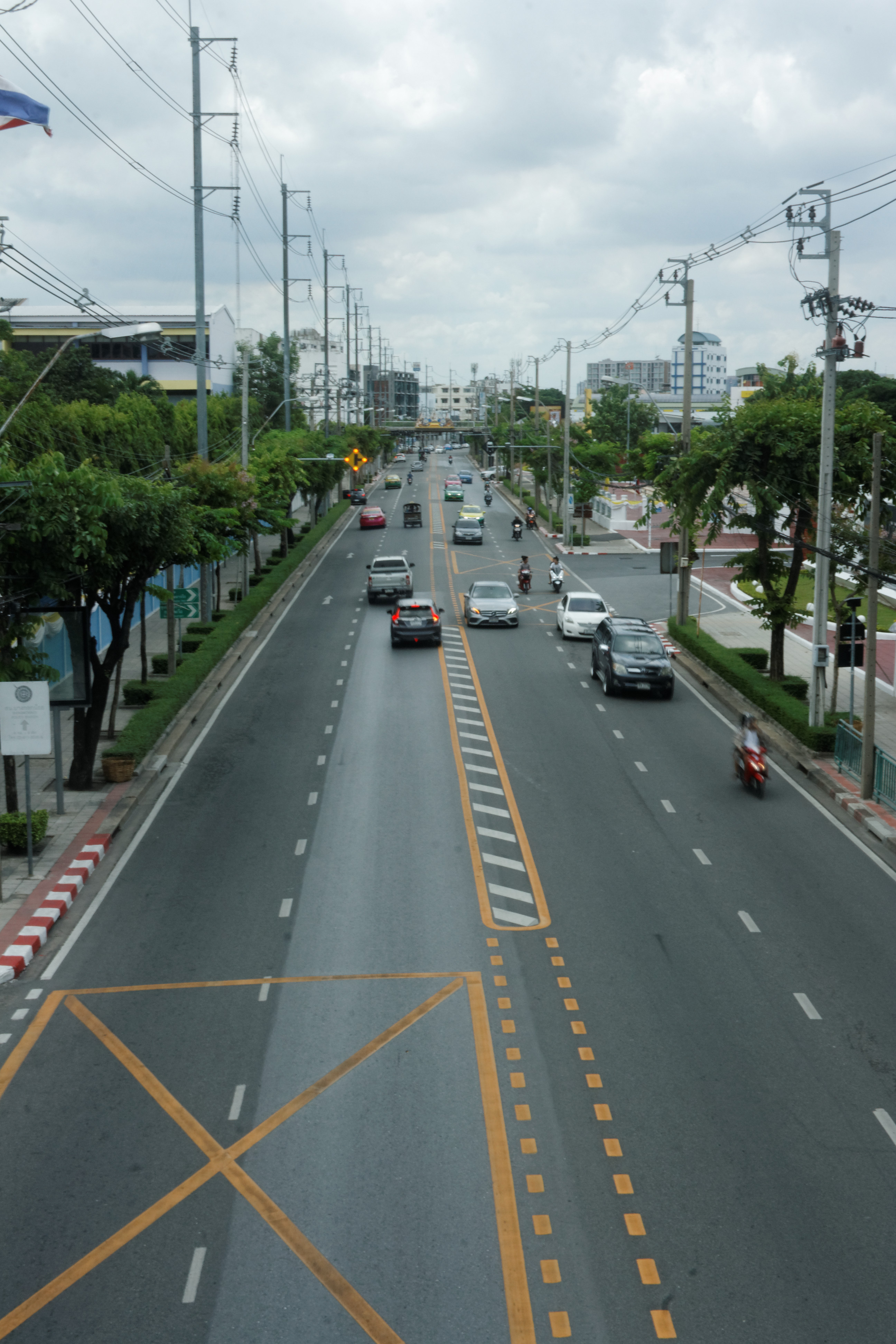 Itsaraphap road from the pedestrian bridge at Chinorot Witthayalai School